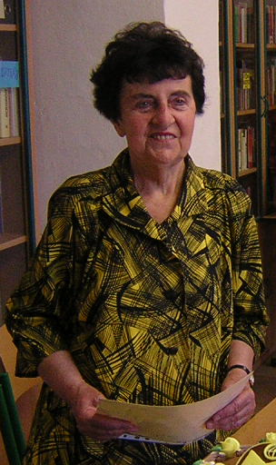 Czech psychologist Hana Drábková, founder of Czechoslovak chapter of Mensa